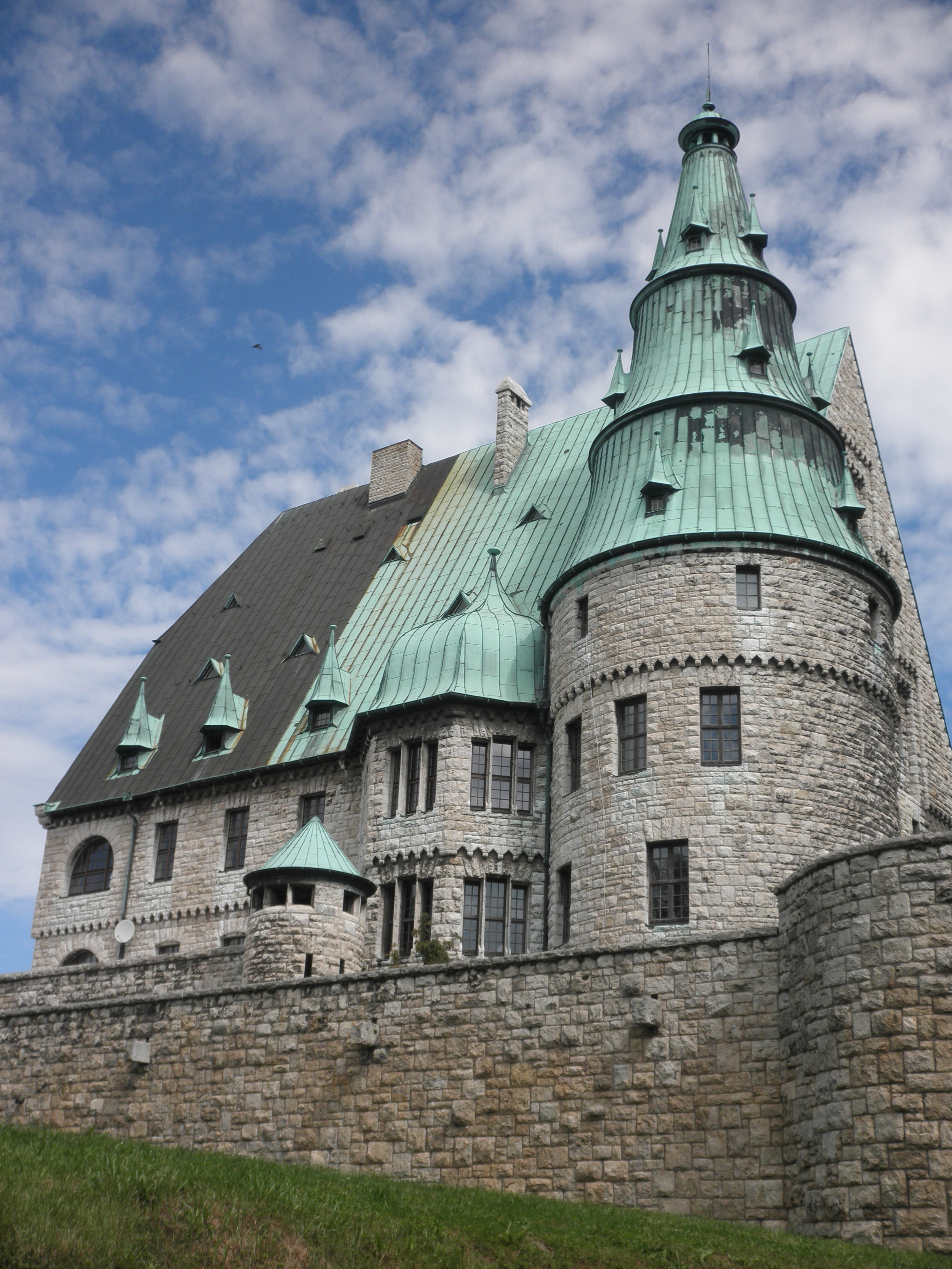 Castle Ohrdruf in Ohrdruf in Thuringia